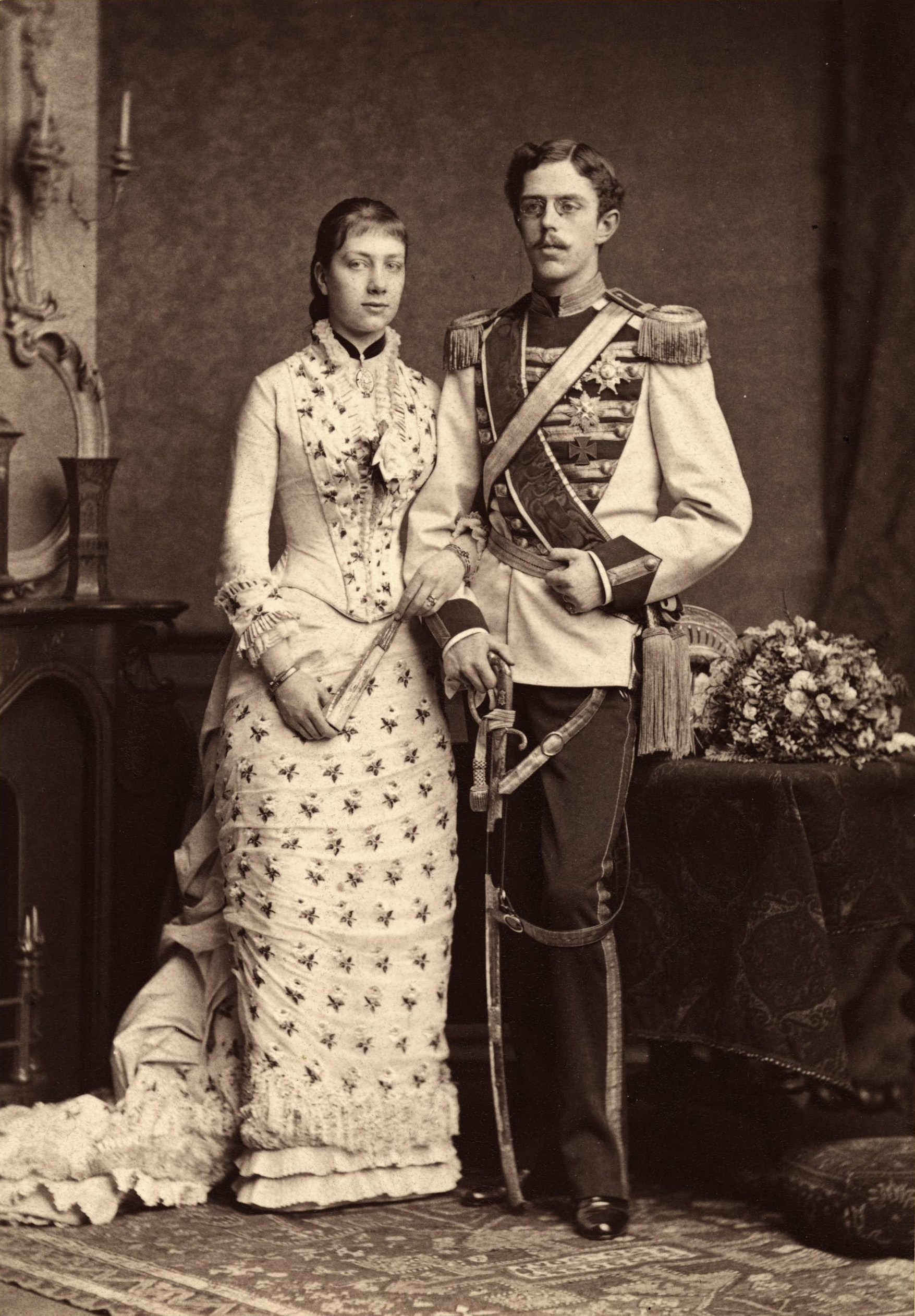 Engagement photo of crown prince Gustaf and princess Victoria 1881 in Karlsruhe